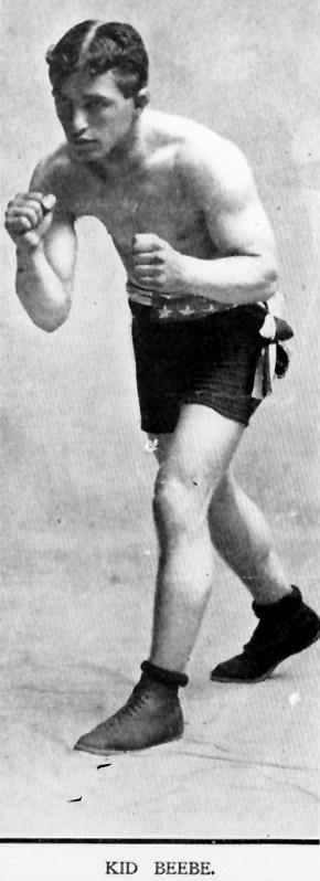 This photo's source was BoxRec, path: This is a youthful picture of Kid Beebe in 1908, a prolific bantamweight boxer who retired from boxing well prior to 1923. The photo, which appeared in newspapers is by definition of having been first published well prior to 1923 public domain in the United States.